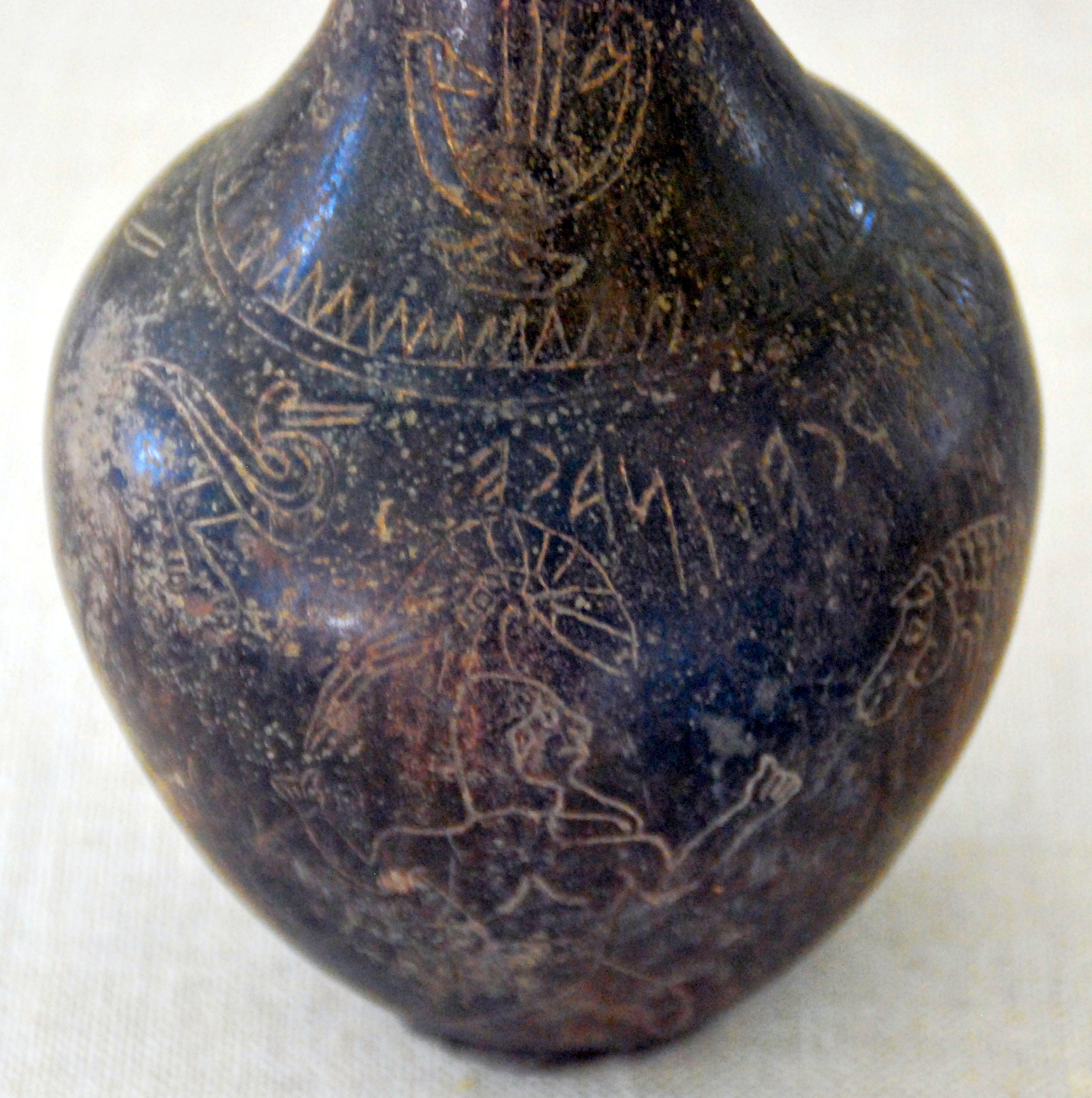 Very fine Etruscan Impasto jug with incised images, imitating phoenician examples from metal, handles missing; phoenician palmette on the neck, belly image shows warrior between a horse and a feeding goat, over them two from right-to-left walking birds as well as the inscription Mi MAMARCE ZINACE, probably a maker's signature of a potter Mamarce; about 640/20 BC; now Antikensammlung Würzburg, inventory number H 5724.